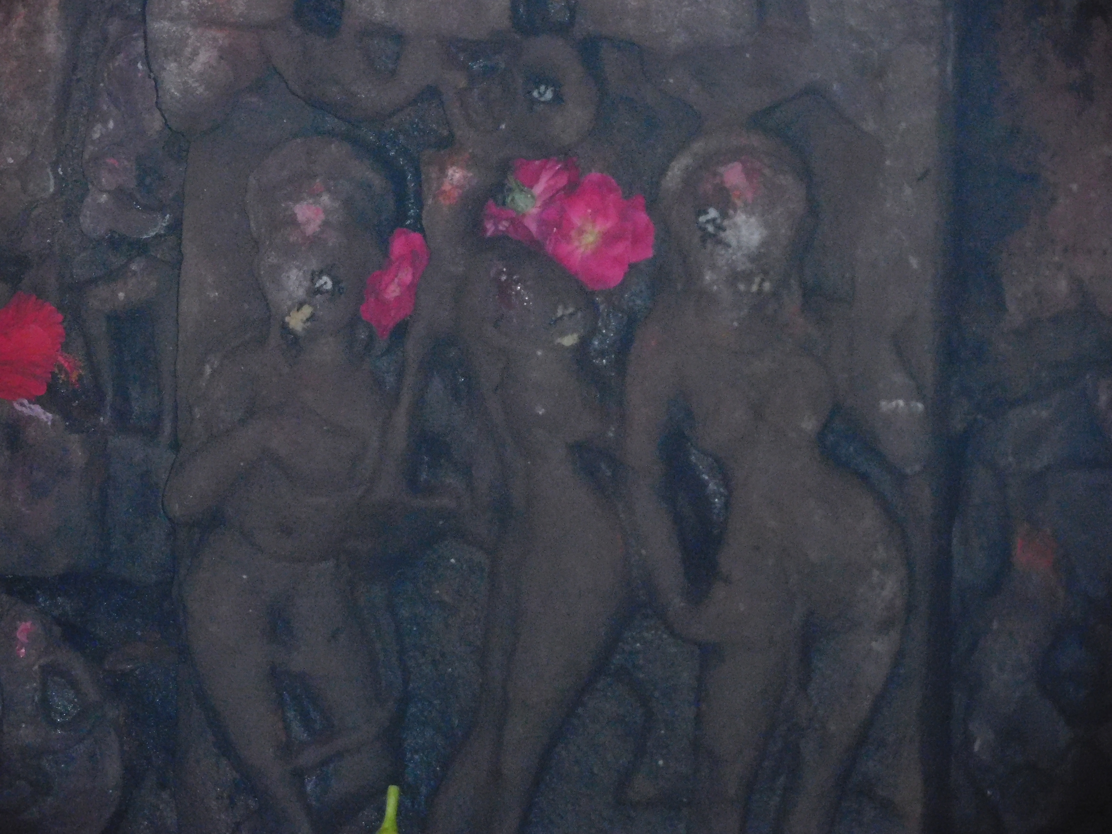 Perhul Devi Temple (Carved statue) a historical place at village Lamahra near Rura,Kanpur Dehat,UP,India. Its mention in Pramalraso (Aalh-Khand)